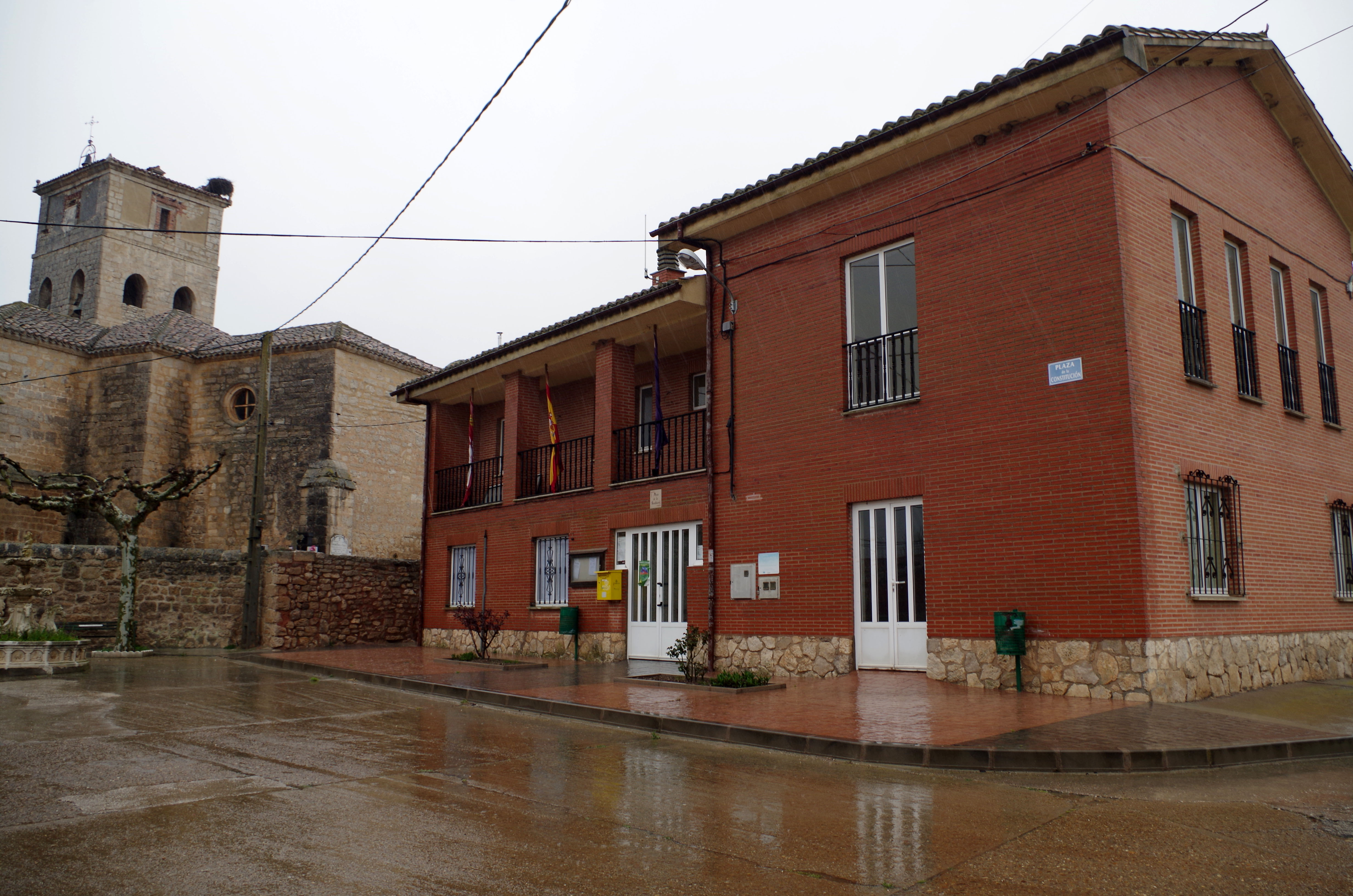 Church and town hall of Villazopeque, Burgos, (Spain)